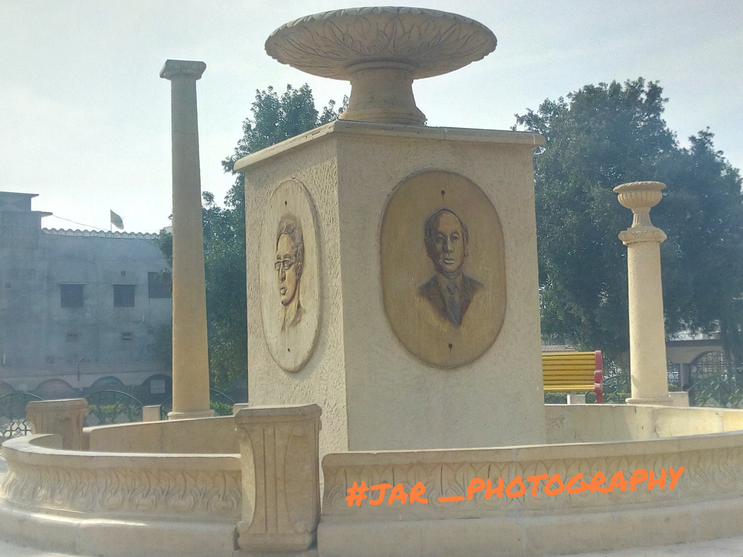 Shaheed Benazir Bhutto Park Badin